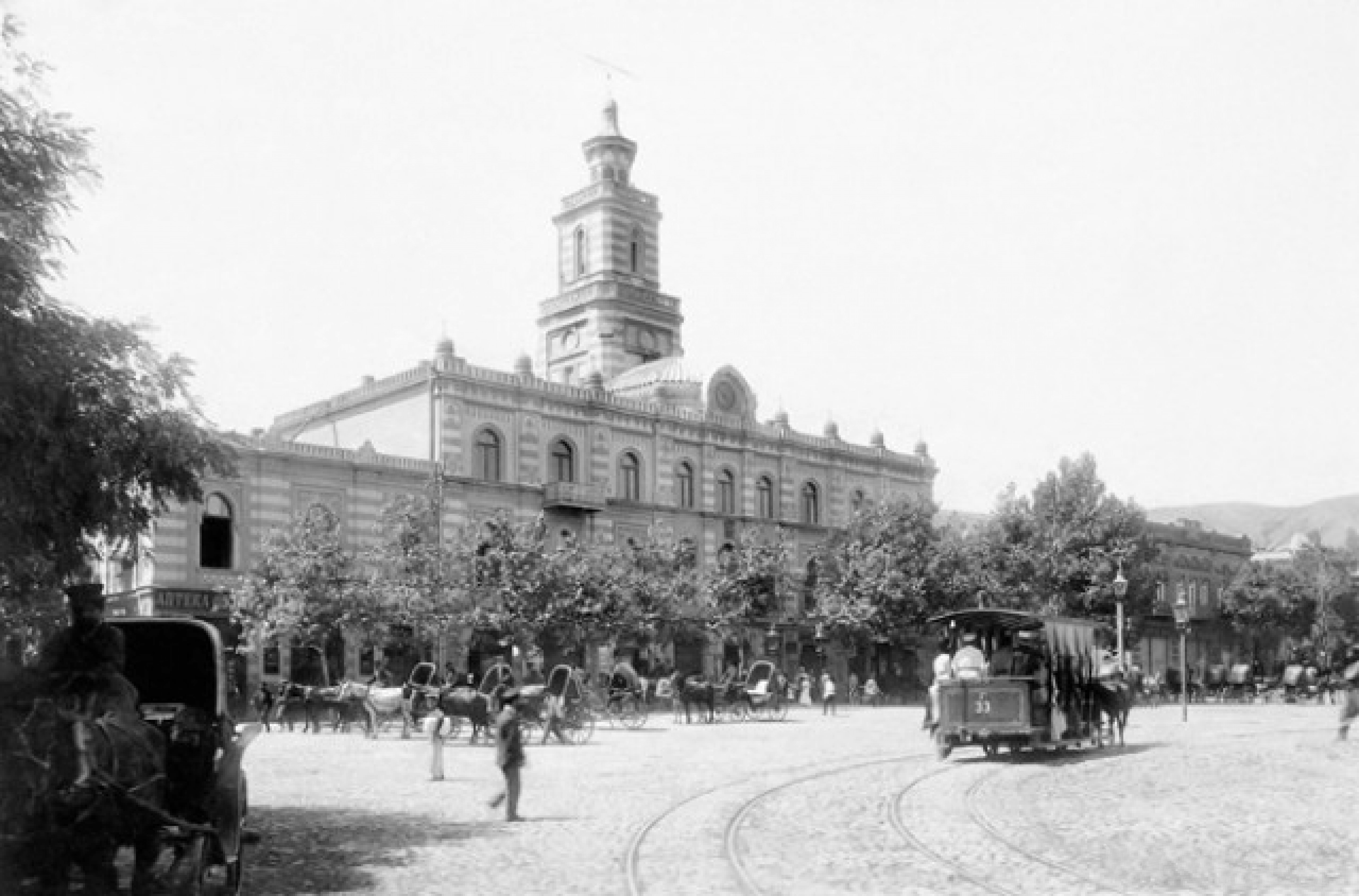 Old Tbilisi. Erivan Sq (Photo by D. Ermakov), 1885